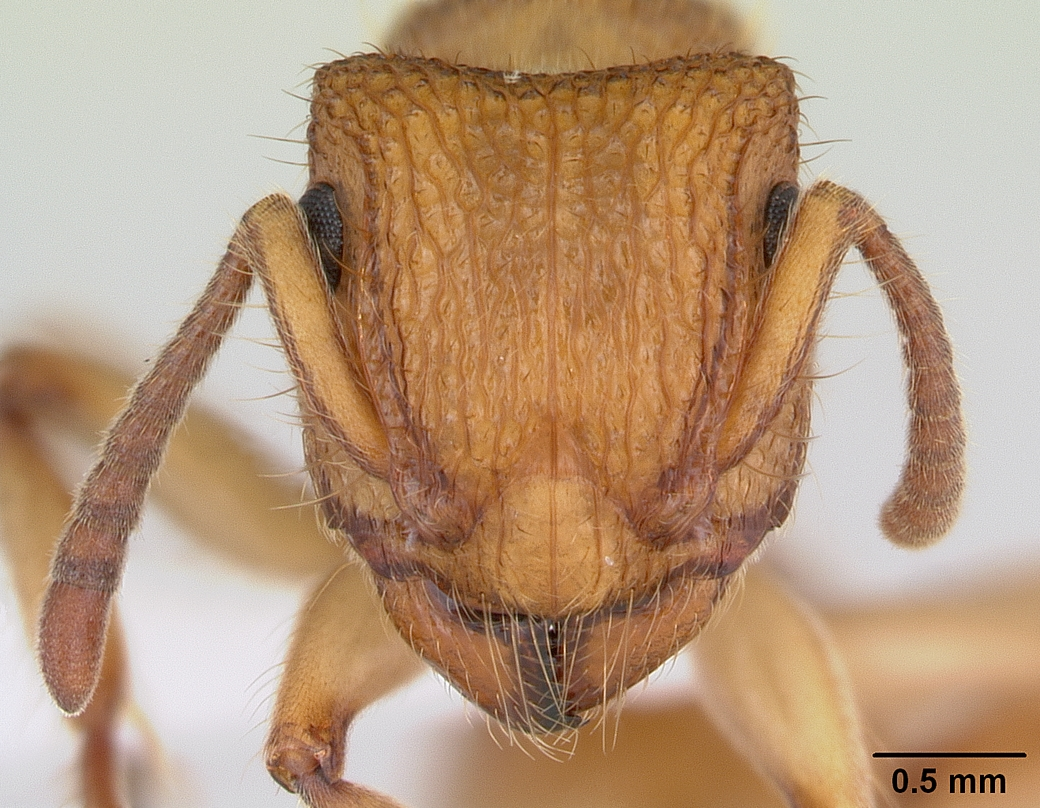 Head view of ant Acanthoponera mucronata specimen casent0173540.